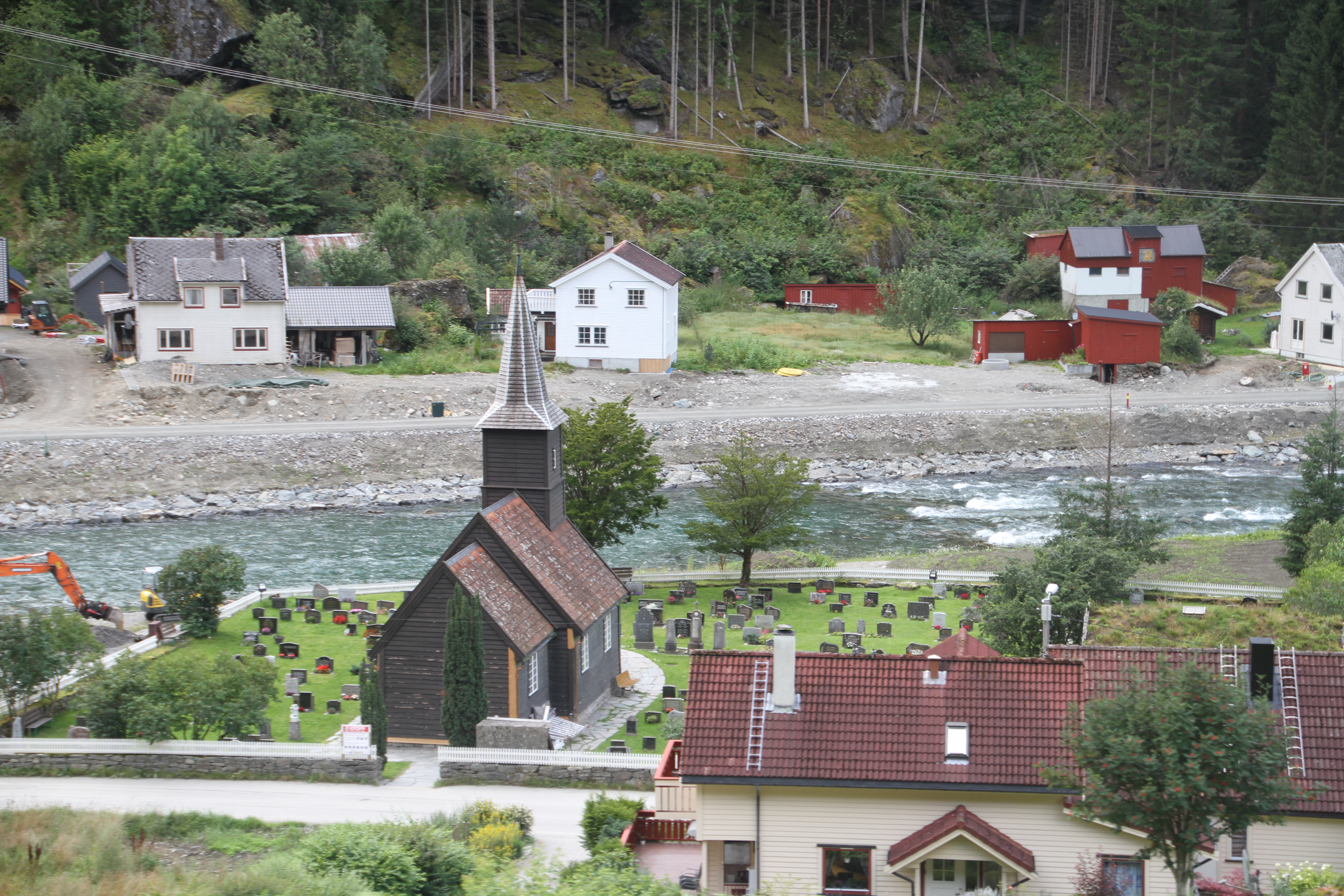 Flåm township with Flåm Church, in Aurland municipality, western Norway.